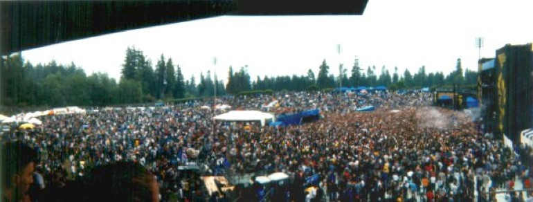 Edgefest is a yearly outdoor rock concert festival that primarily promotes Canadian rock music. This is an incredibly low resolution image (the best I can currently, if ever, provide) but I am under the impression that 'something is better than nothing'. And so I am providing this image of 1998 Edgefest in Vancouver, Canada as a way to help someone remember those long lost days, and also to help archive that moment for future generations. This is from the stands, looking out at the crowd and the stage on the right hand side.